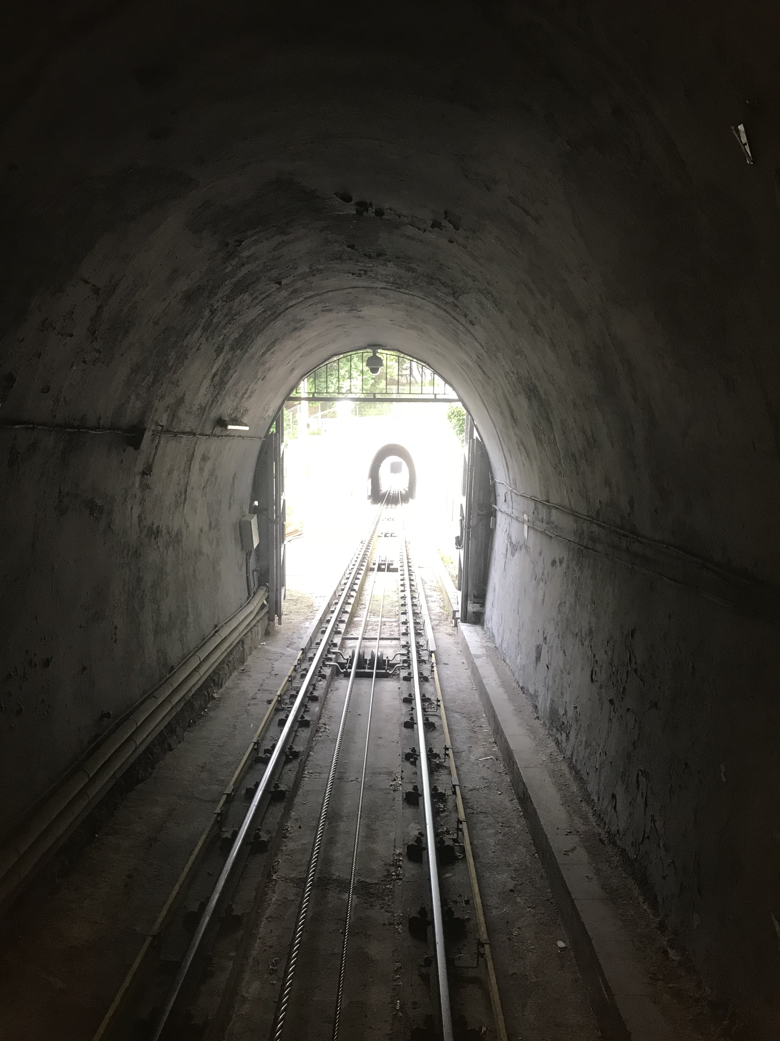 Riding the Montjuïc Funicular facing Paral·lel station in Barcelona, Spain